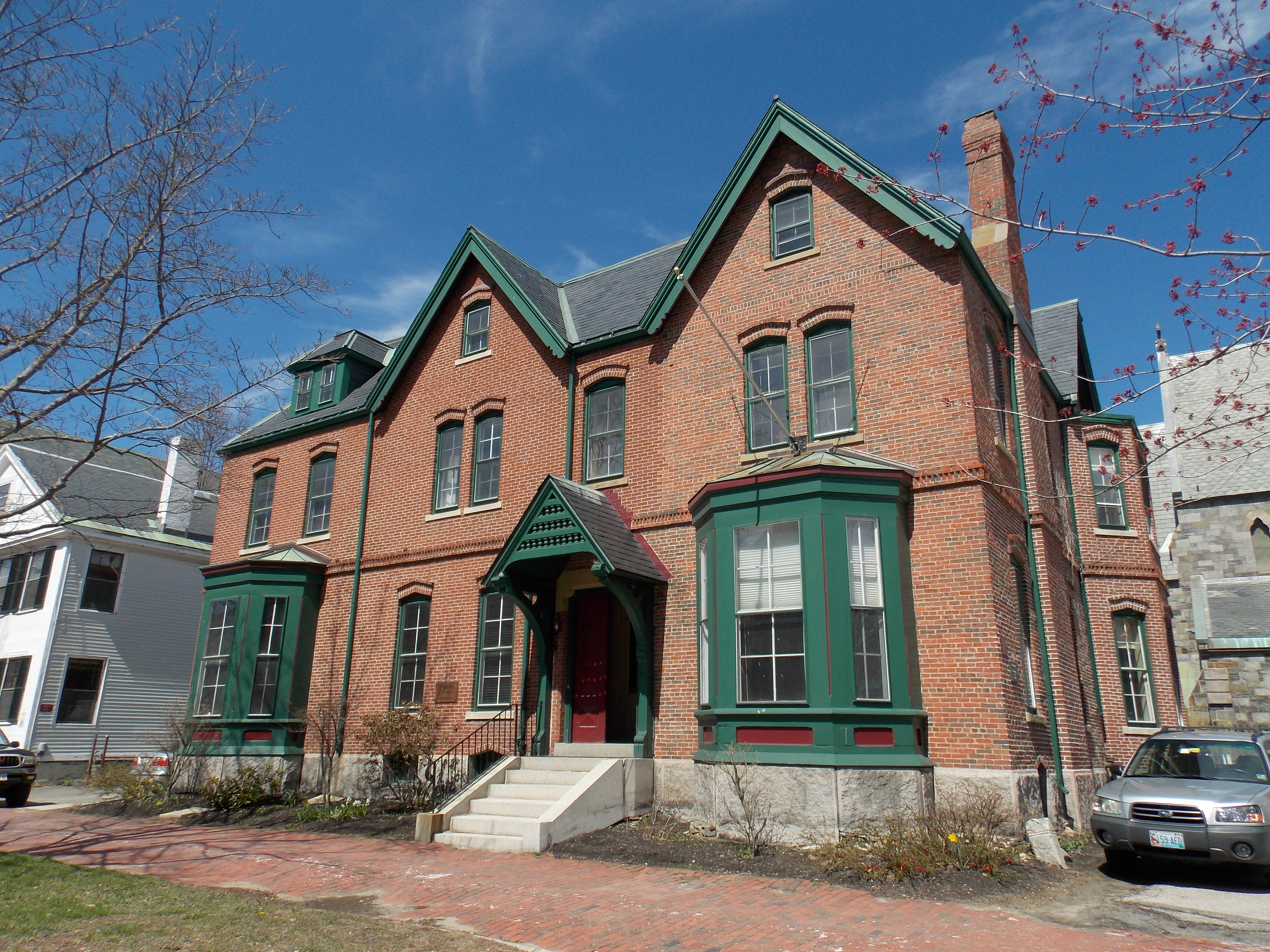 Loring House, the headquarters of the Episcopal Diocese of Maine.